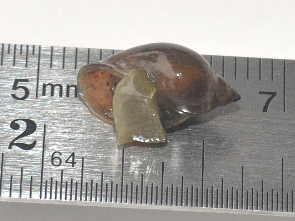 Radix rubiginosa, 13.5 mm shell height. From Banyumas, Central Java, Indonesia.